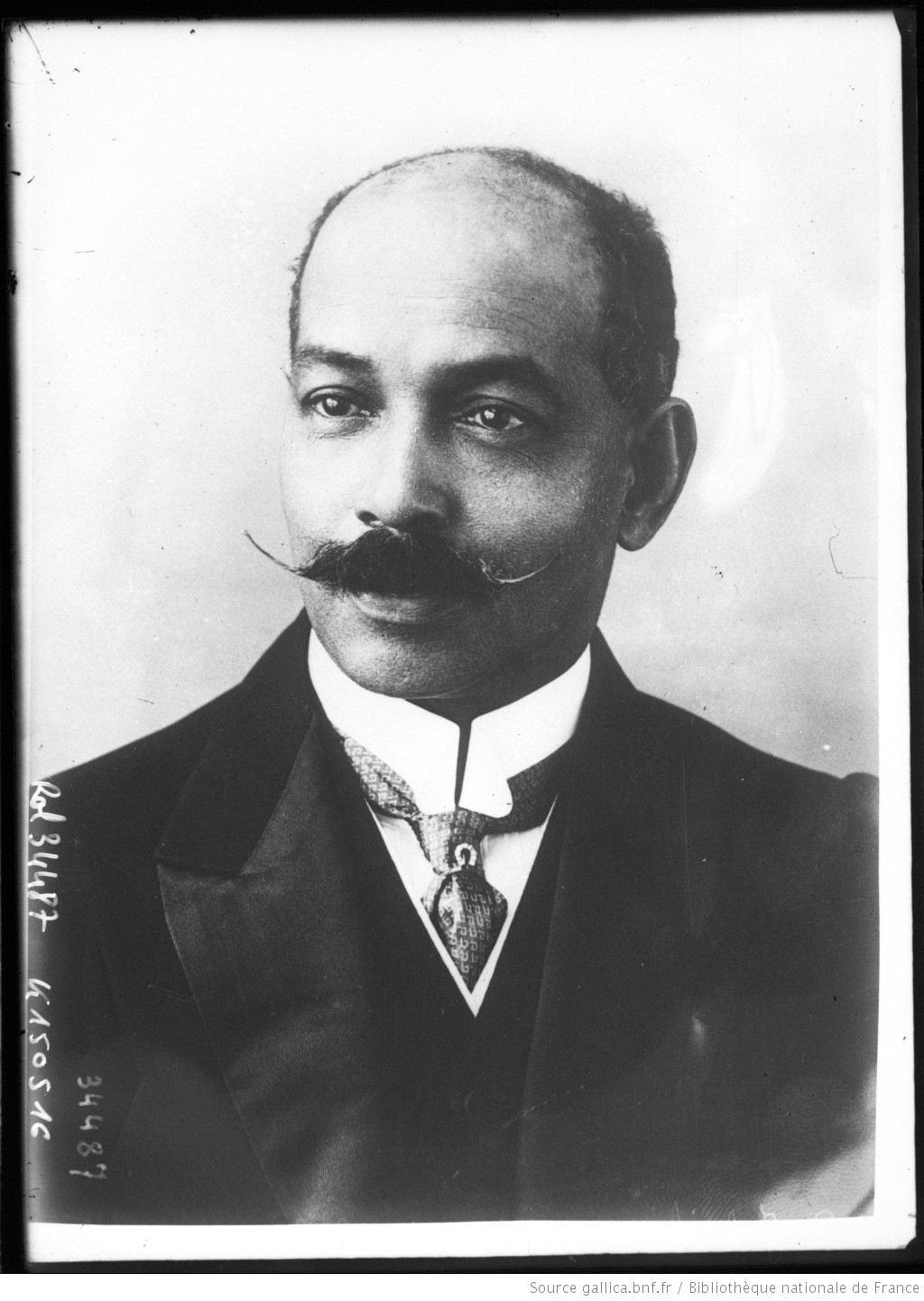 John Archer, Mr R. J. Archer, mayor of Battersea, 10 November 1913